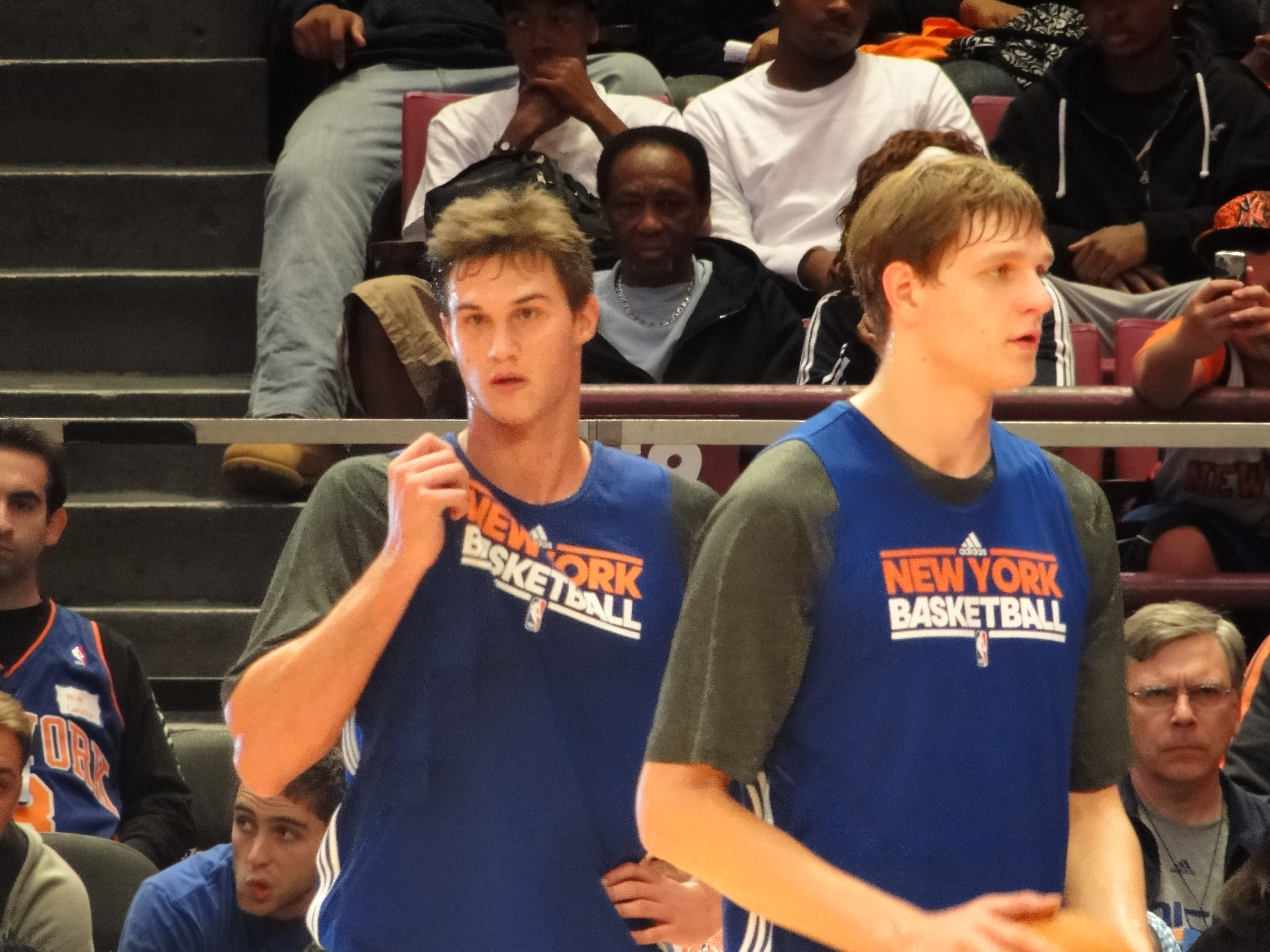 Danilo Gallinari and TImofey Mozgov of the New York Knicks at the team's open practice session in October 2010.